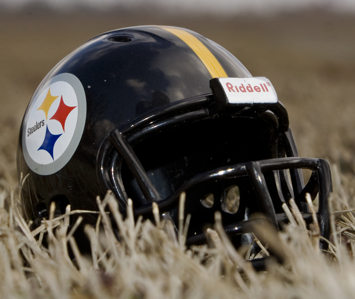 Stylized image of a Pittsburgh Steelers helmet sitting on a grass field